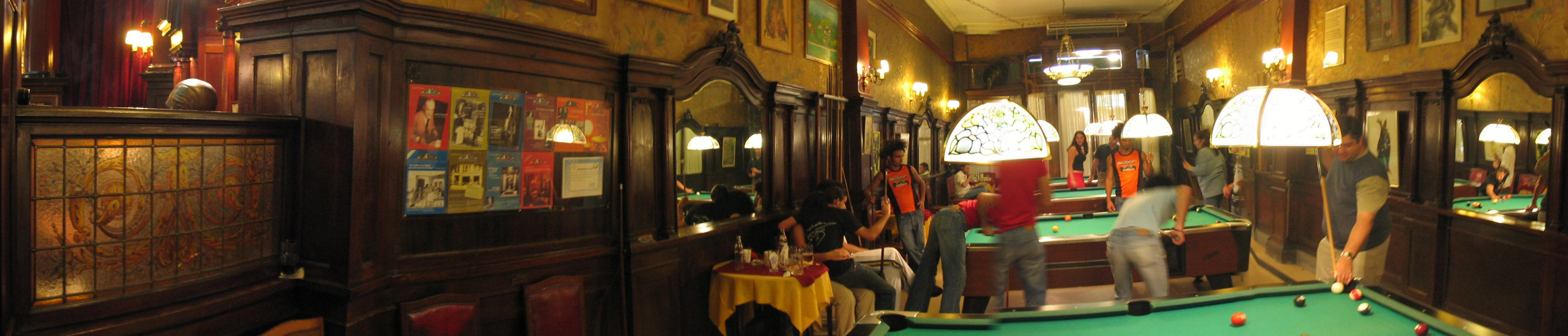 The back of the café Tortoni in Buenos Aires, Argentina.